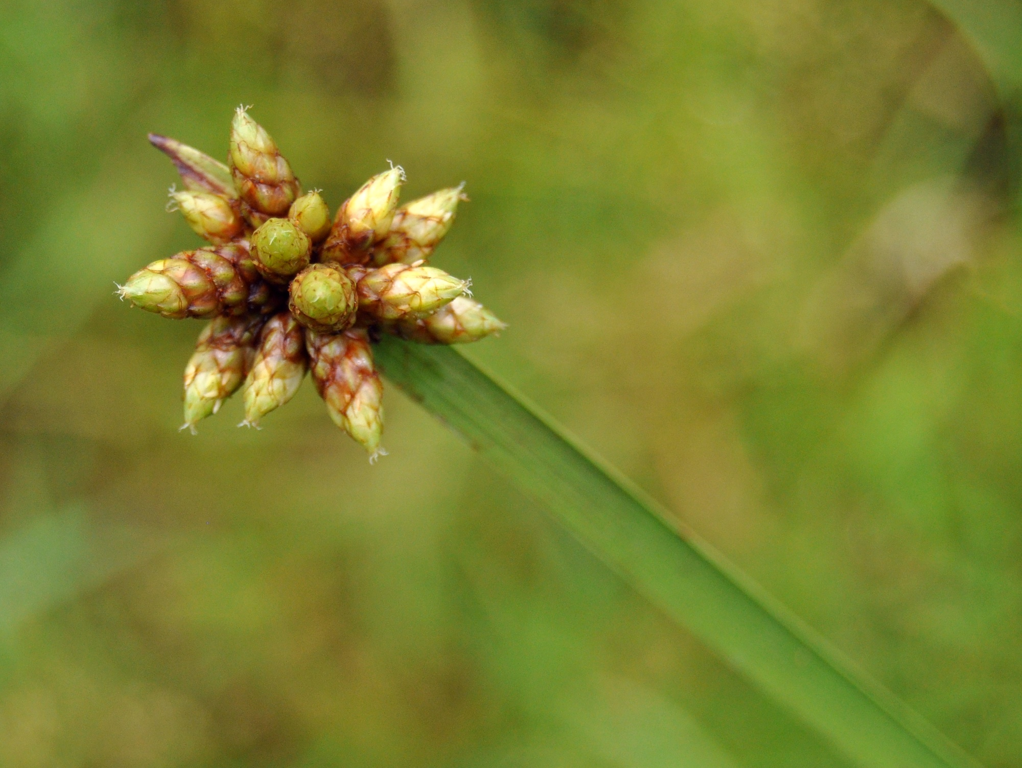 Bog bulrush (Schoenoplectiella mucronata, syn. Scirpus mucronatus); close up spikelets. From Mamasa, West Sulawesi, Indonesia.